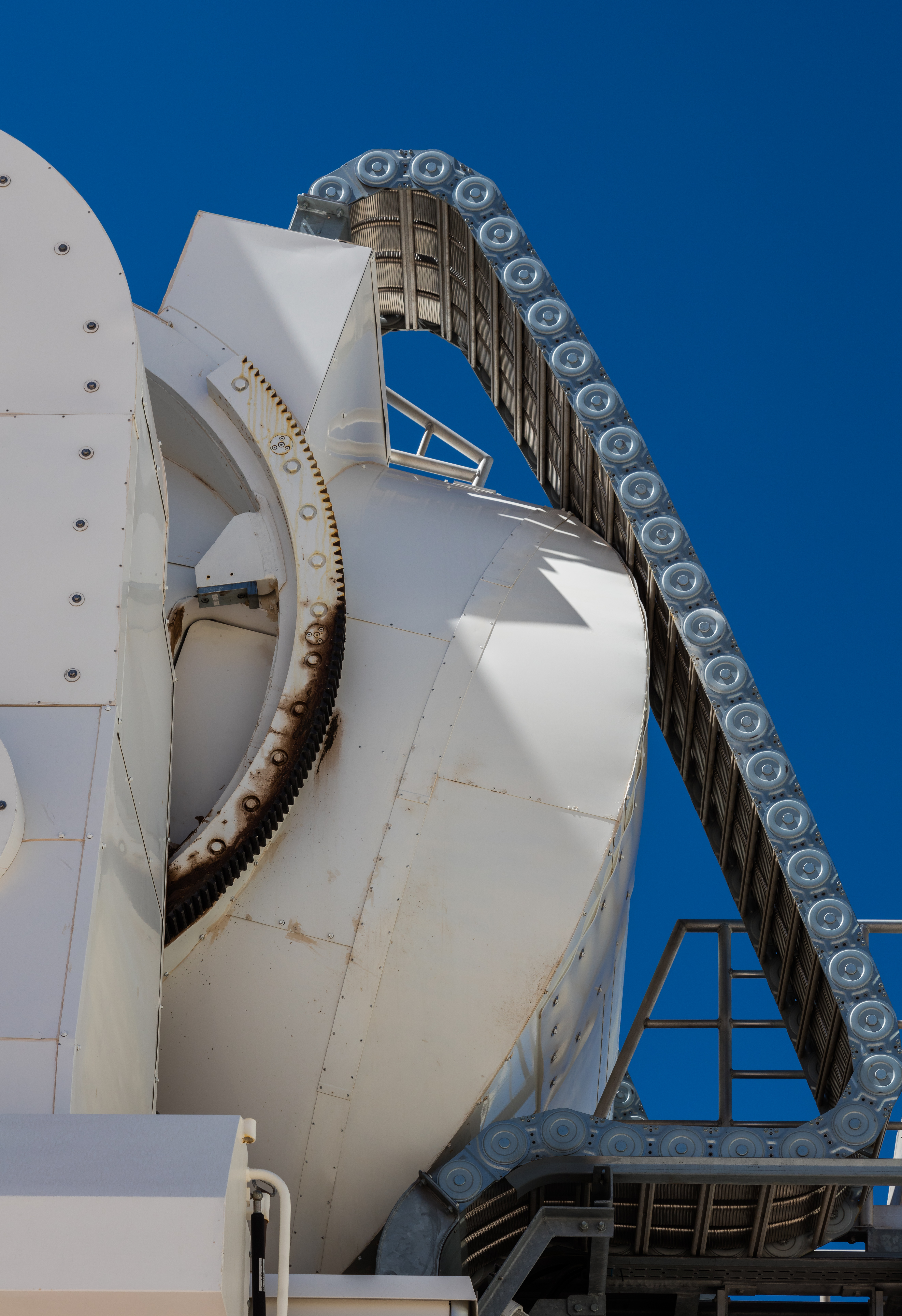 ALMA (Atacama Large Millimeter Array) space observatory, Atacama desert, Chile